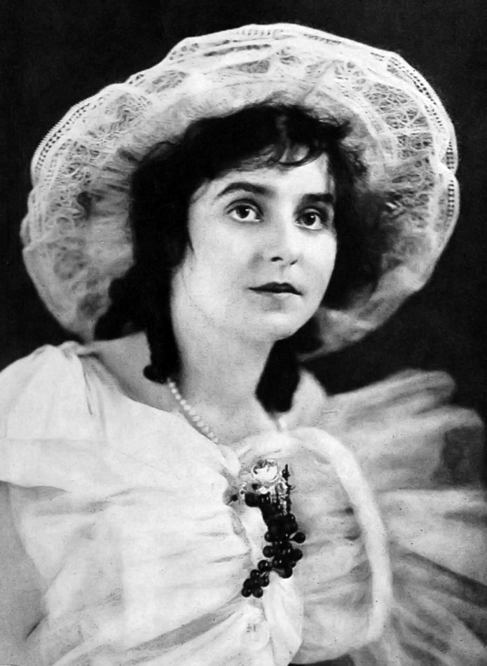 Beverly Bayne (1894-1982) Image caption: Beverly Bayne (Essanay)